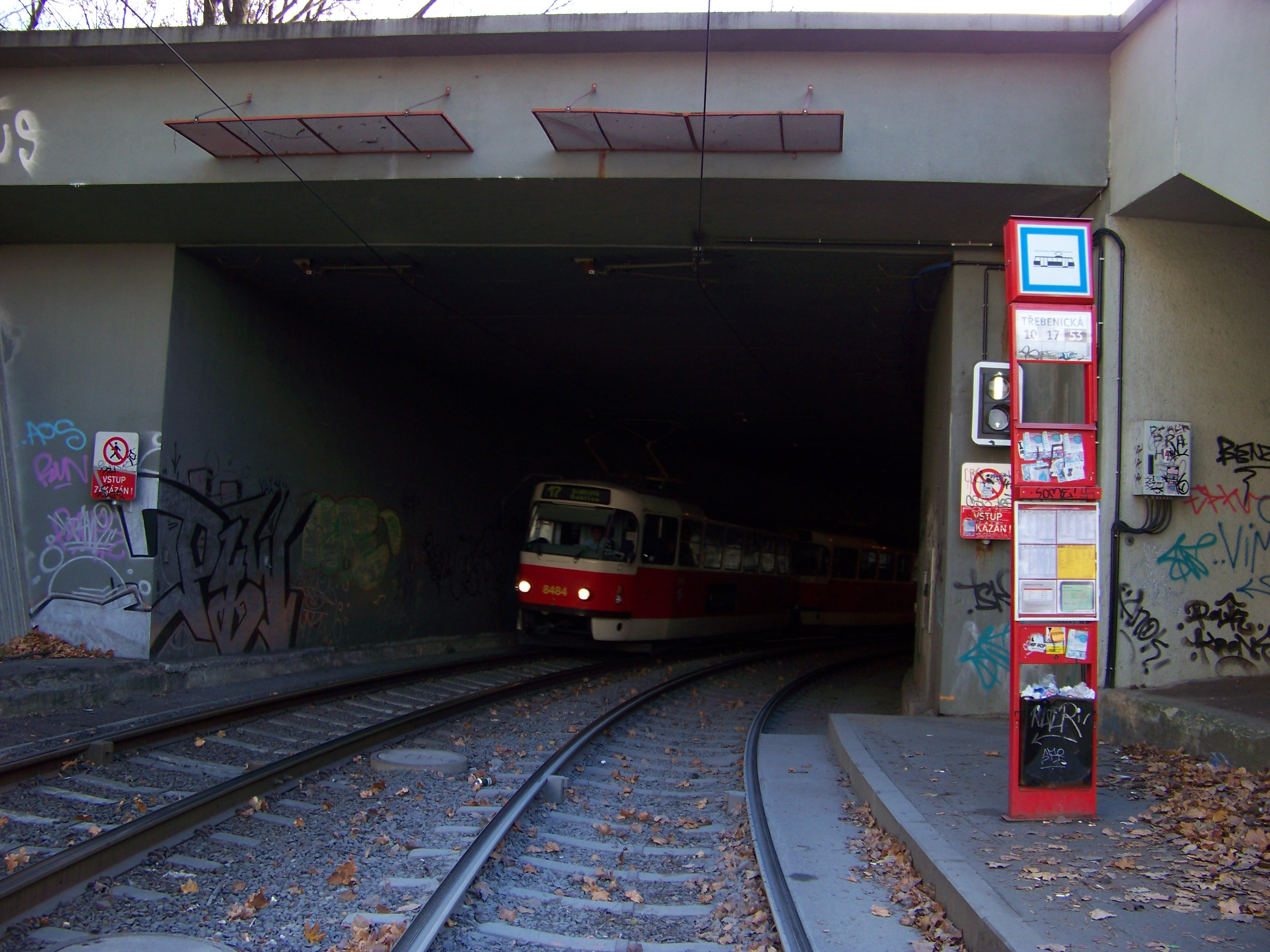 Prague-Střížkov, the Czech Republic. Ďáblice Housing Estate, tram stop Třebenická and a tunnel.